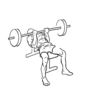 an exercise of triceps